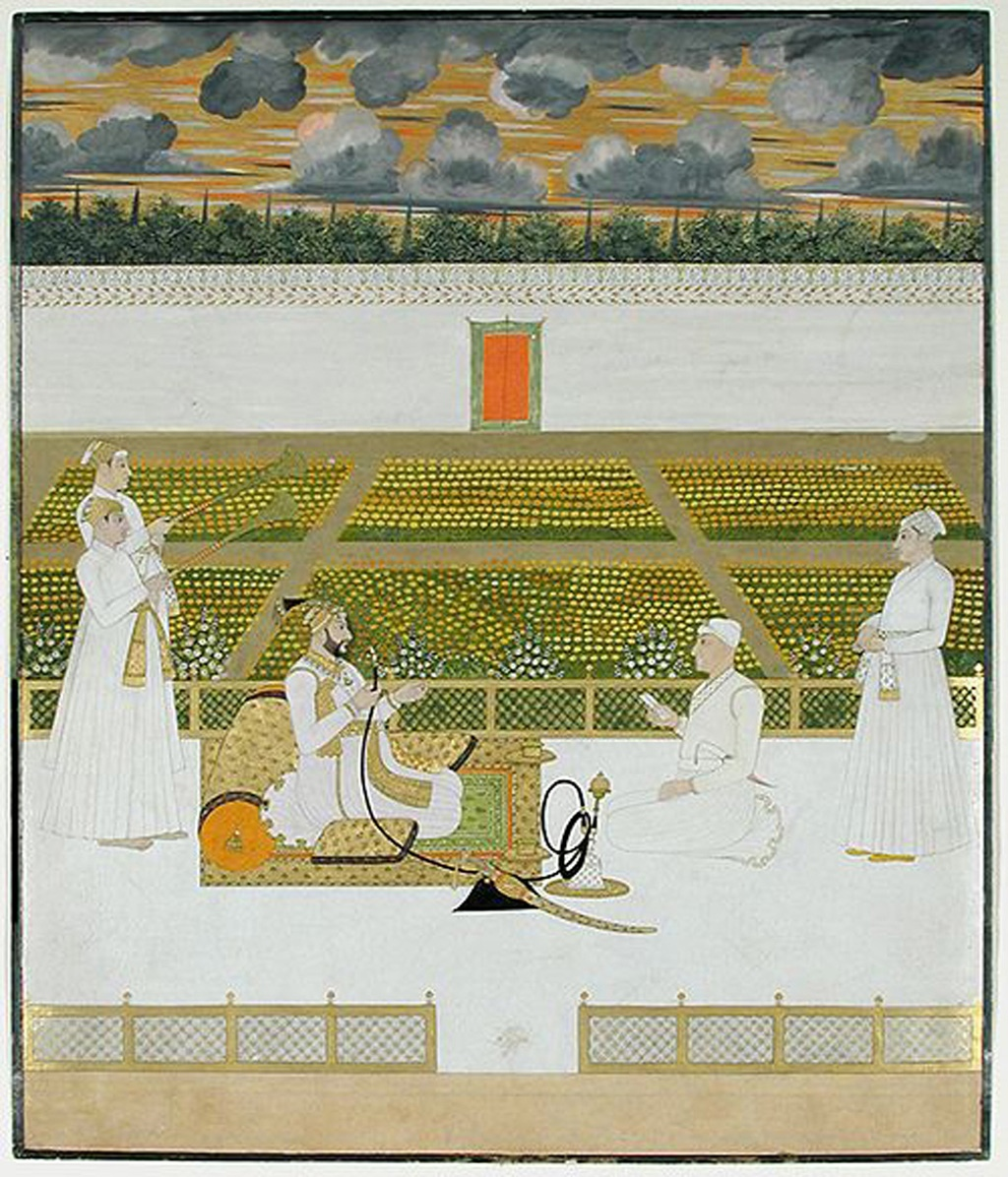 Mir Ja'afar with his Courtiers